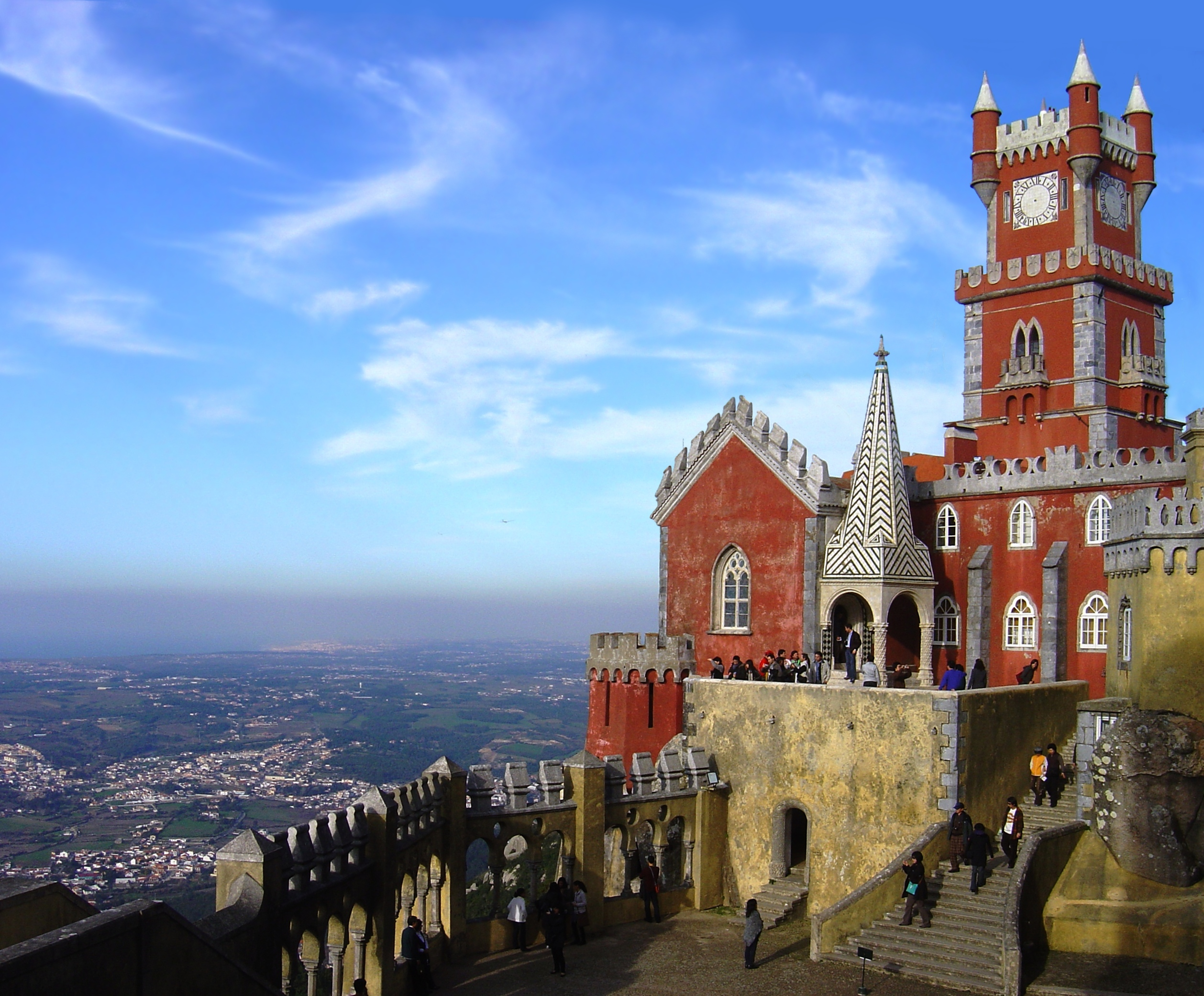 Pena Palace, Sintra, Portugal.